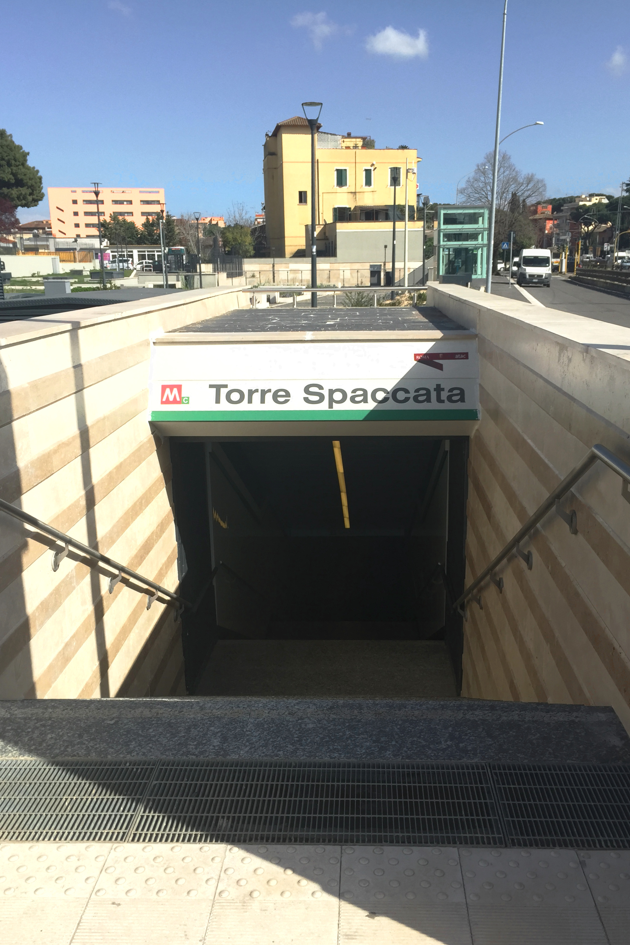 Discenderia piccola secondaria della stazione Torre Spaccata della metro c lato Via Casilina